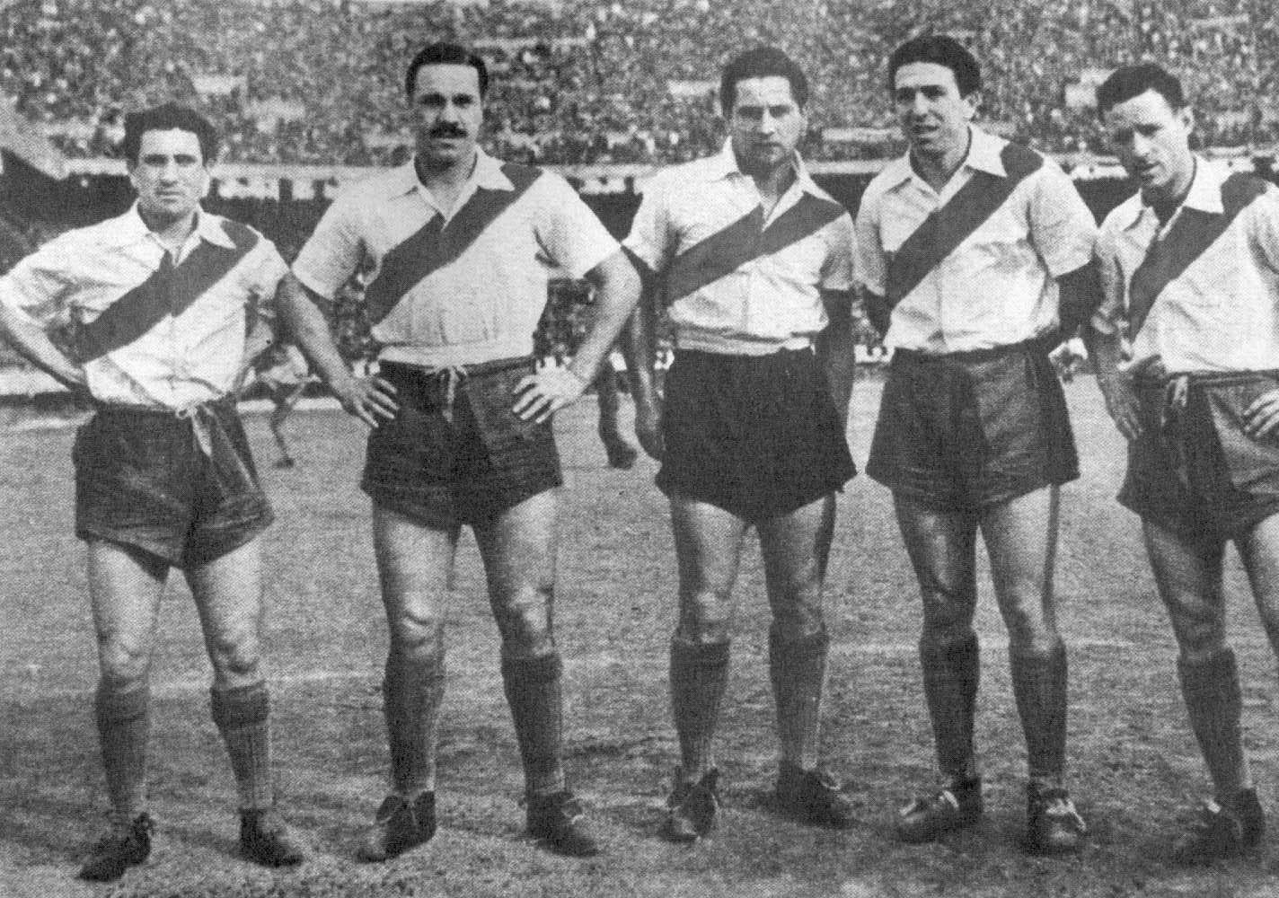 Photo of the Argentine football team River Plate forward line, mostly known as La Máquina. F.l.t.r.: Juan C. Muñoz, José M. Moreno, Adolfo Pedernera, Angel Labruna and Félix Lousteau.